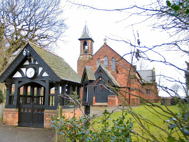 Photograph